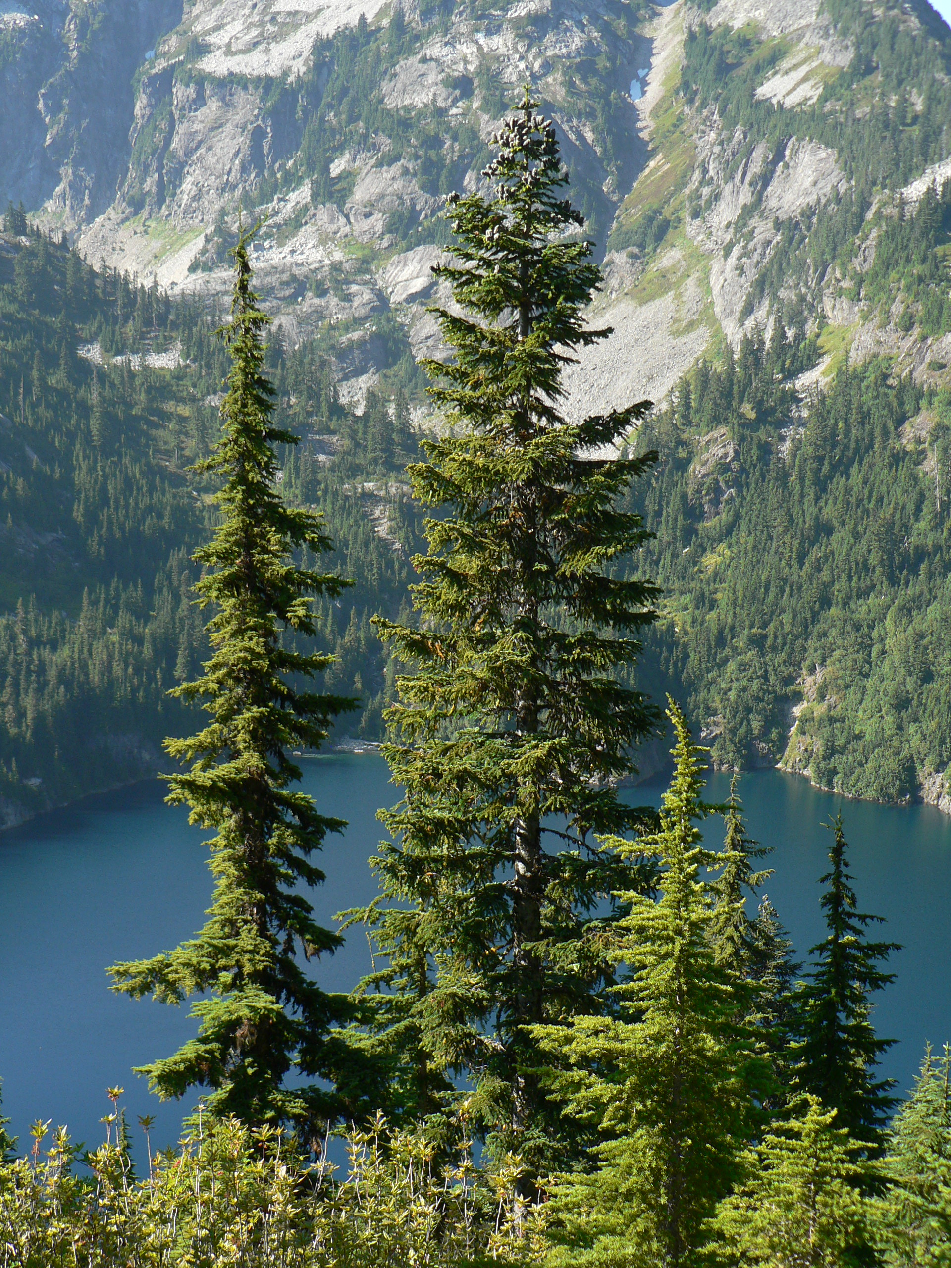 Subalpine Fir Abies lasiocarpa subsp. lasiocarpa (center) among Tsuga mertensiana, Lower Thornton Lake, 4486 feet, 1367 m (behind)